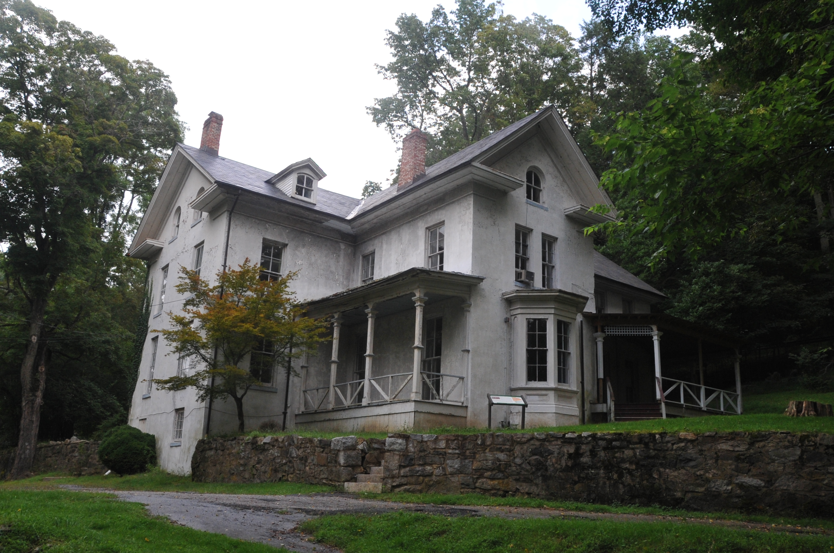 BUILT CIRCA 1710-1725, BECAME THE CENTERPIECE OF THE IRON PLANTATION THAT BECAME UNION FORGE IRONWORKS. LATER CALLED TAYLOR IRON AND STEEL COMPANY, IT EVENTUALLY BECAME KNOWN AS TAYLOR-WHARTON. JOHN PENN, THE LAST ROYAL GOVERNOR OF PENNSYLVANIA, AND BENJAMIN CHEW, THE LAST CHIEF JUSTICE OF THE SUPREME COURT OF PENNSYLVANIA, WERE POLITICAL PRISONERS AT SOLITUDE HOUSE DURING THE AMERICAN REVOLUTIONARY WAR.